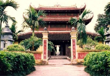 AnDuong's Temple in An Dương District, Haiphong